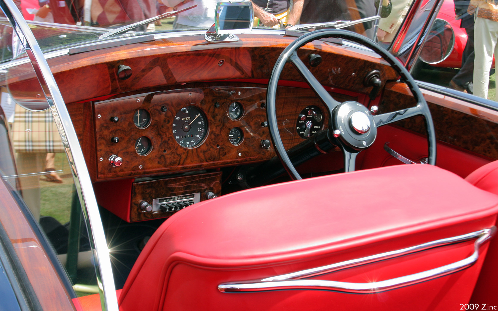 1947 Rolls-Royce Silver Wraith Inskip Convertible instrument panel